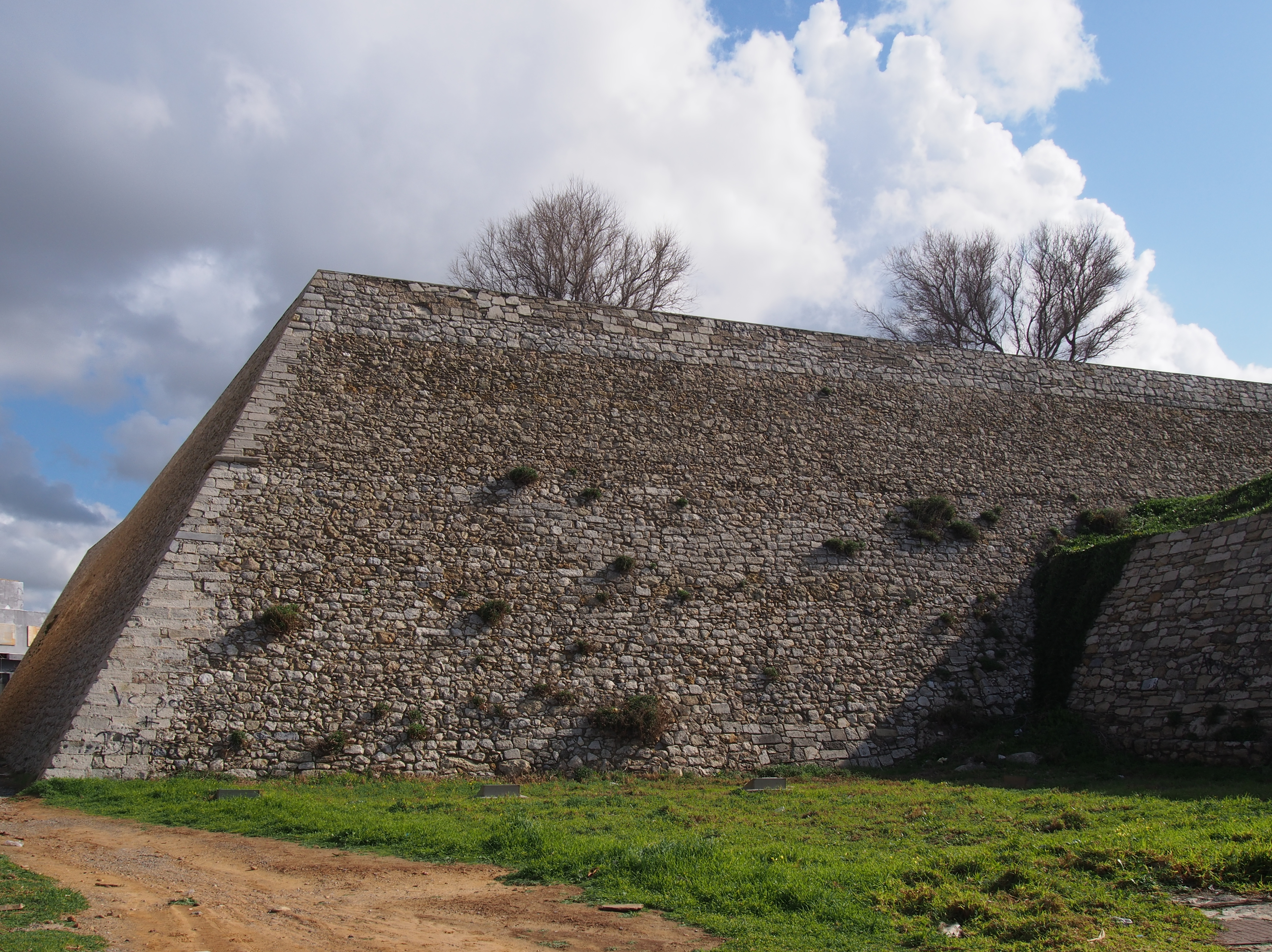 Saint Adrew bastion, Heraklion, as seen from the seaside avenue.